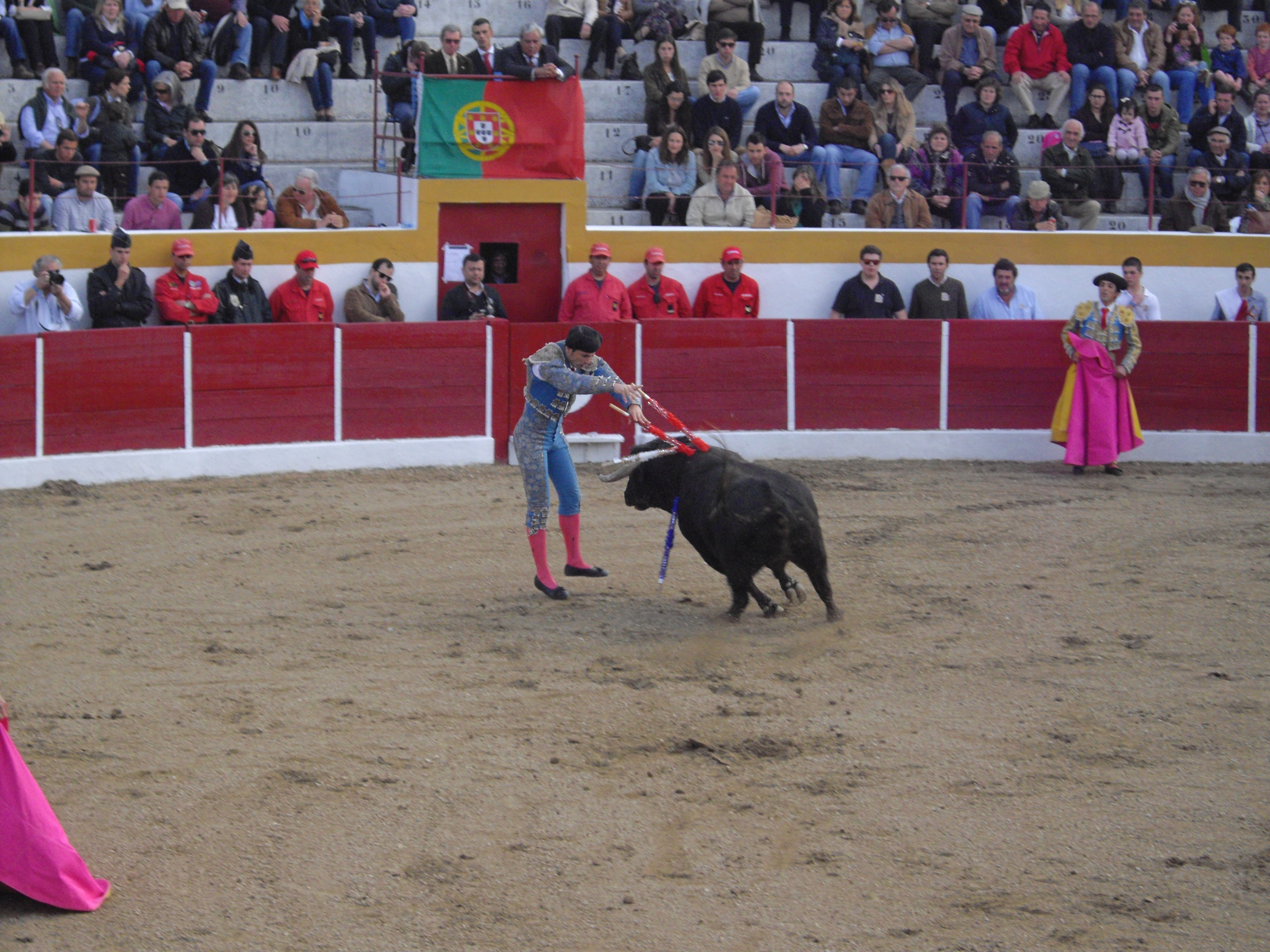 Iberian tradition( Tourada)